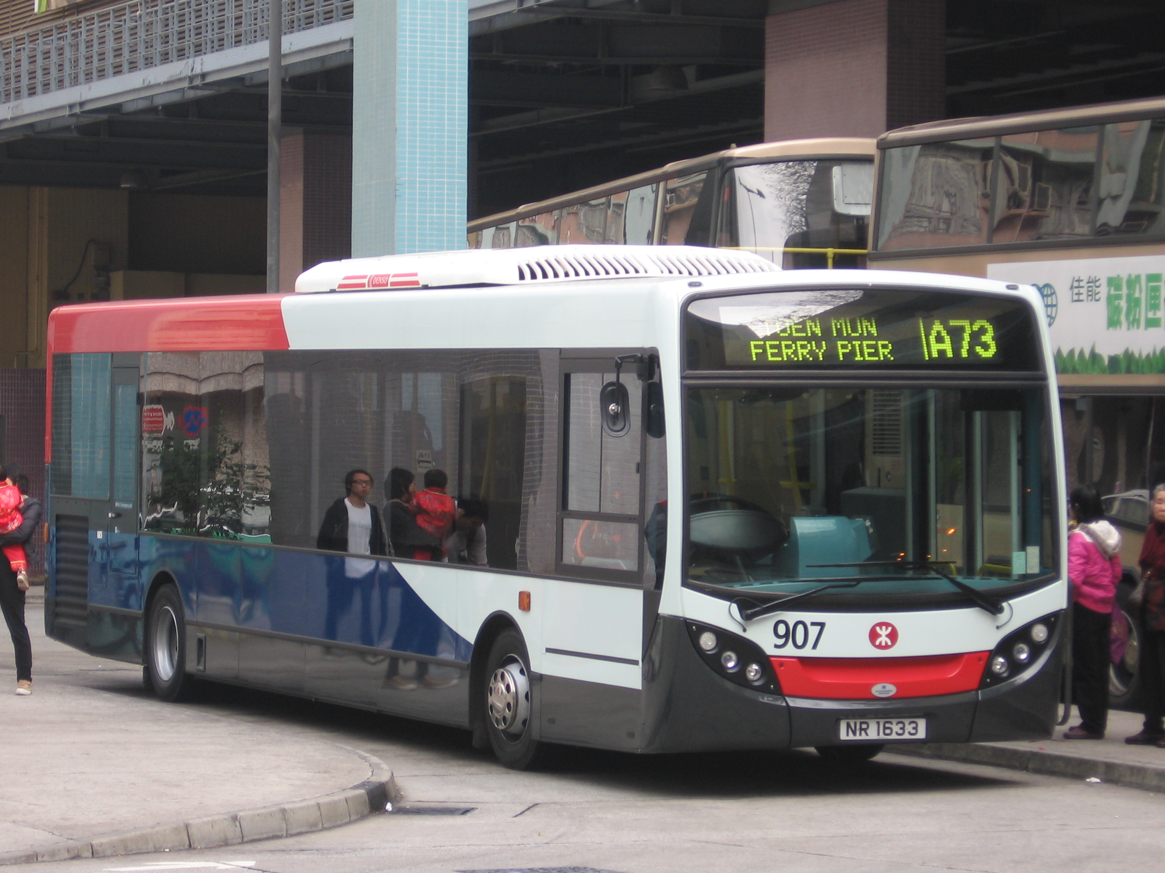 Mtr ADL enviro200 dart